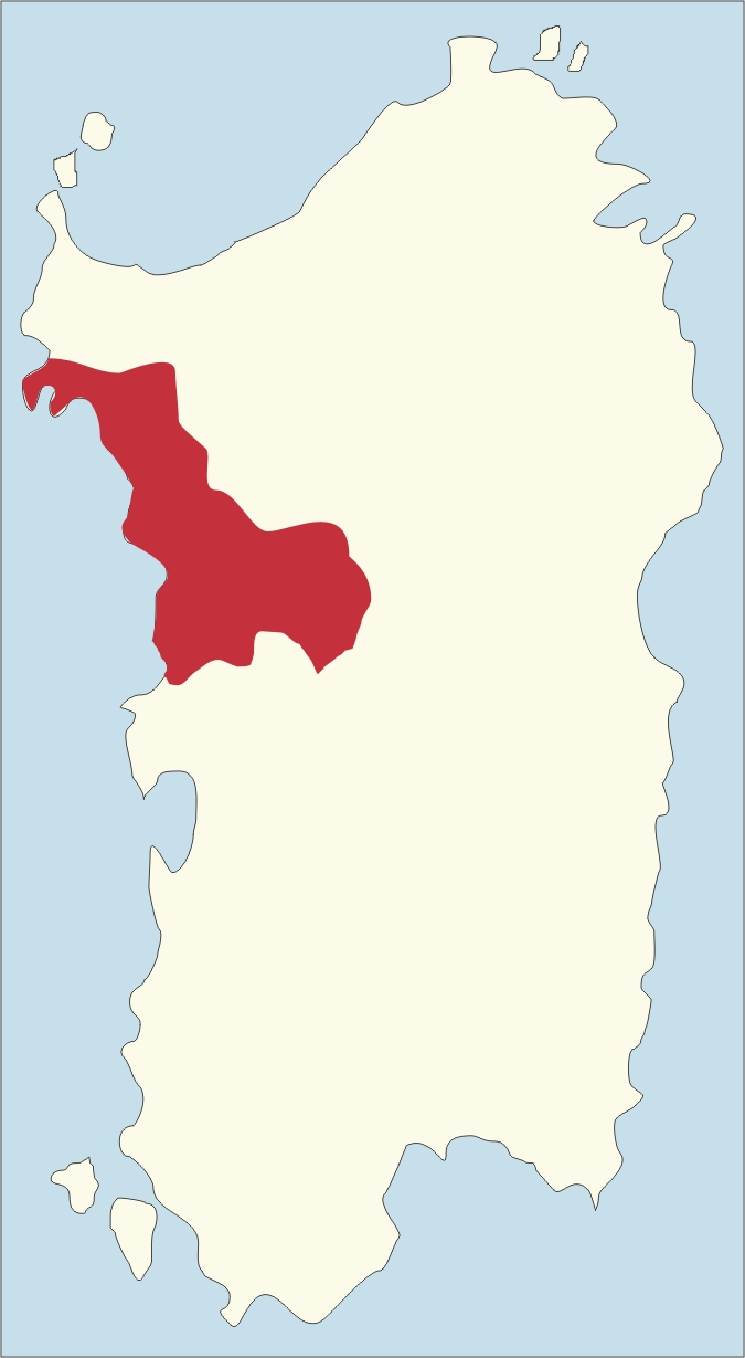 Map of the situation of the Roman Catholic diocese of Alghiero in Sardinia